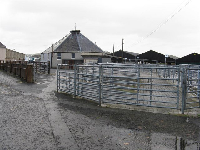 Cattle Mart, Newton St Boswells